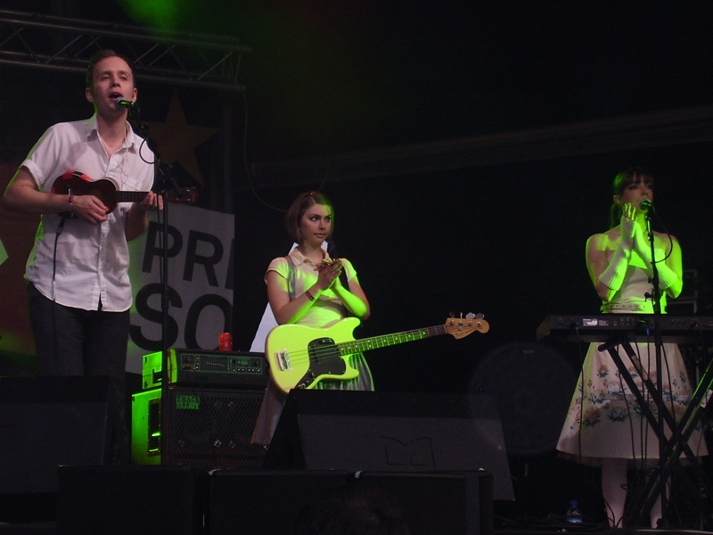 Jens Lekman and band at Primavera Sound Festival, Parc del Forum, Barcelona - June 1, 2006.